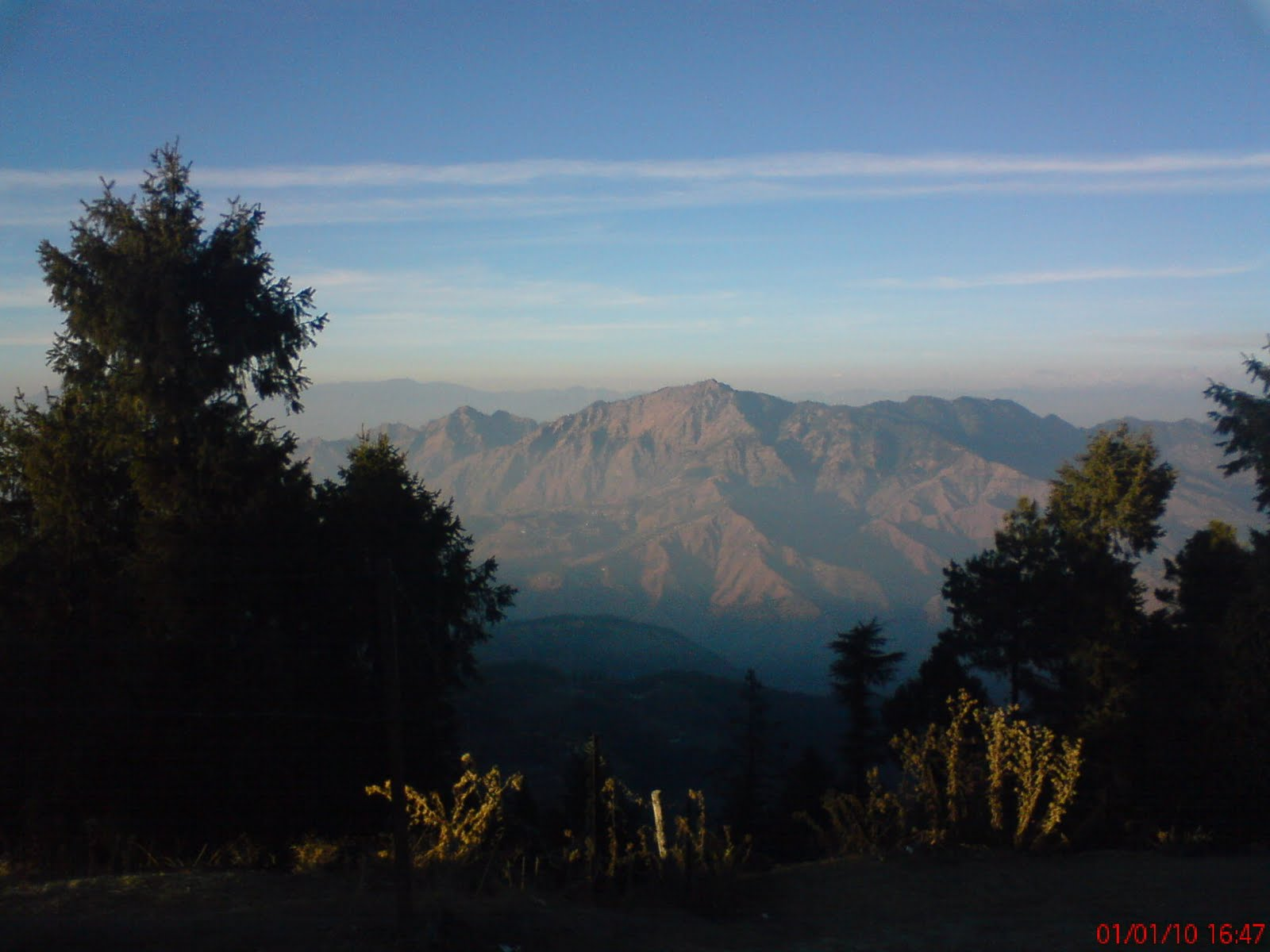 View of the Himalayas from Kufri, Himachal Pradesh